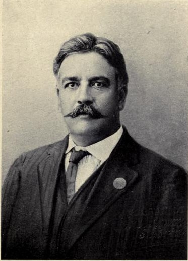 Governor Abraham González from the memoir of Tex O'Reilly.